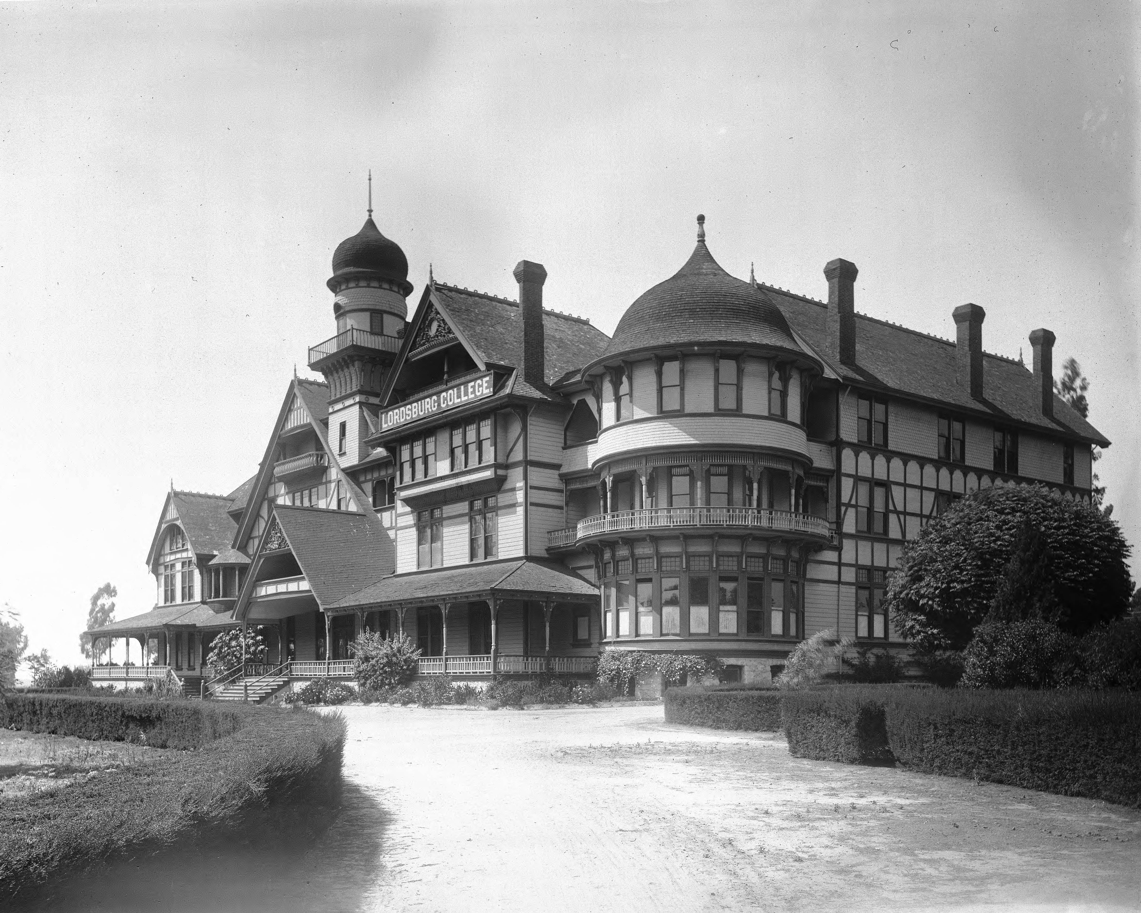 Lordsburg College in Lordsburg (later, La Verne), ca.1910 Photograph of the exterior view of the Lordsburg College in Lordsburg (later, La Verne), ca.1910. The three-story building features two bulbous domed towers, fancy roof tracery, steep gabled roofs, and an arcade walkway for the porch. Narrow walkways circumnavigate the towers. Four chimneys protrude above the inclined roofs. Neatly groomed bushes trace the perimeters of the dirt driveway. Flower bushes, plants and small trees cover the garden area surrounding the façade. Call number: CHS-5313 Filename: CHS-5313 Coverage date: circa 1910 Part of collection: California Historical Society Collection, 1860-1960 Format: glass plate negatives Type: images Geographic subject (city or populated place): La Verne Repository name: USC Libraries Special Collections Accession number: 5313 Archival file: chs_Volume52/CHS-5313.tiff Part of subcollection: Title Insurance and Trust, and C.C. Pierce Photography Collection, 1860-1960 Repository address: Doheny Memorial Library, Los Angeles, CA 90089-0189 Geographic subject (country): USA Format (aacr2): 1 photograph : glass photonegative, b&w ; 21 x 26 cm. Rights: Digitally reproduced by the USC Digital Library; From the California Historical Society Collection at the University of Southern California Subject (adlf): educational facilities Project: USC Repository Contributing entity: California Historical Society Date created: circa 1910 Publisher (of the digital version): University of Southern California. Libraries Format (aat): photographs Geographic subject (state): California Subject (file heading): Los Angeles County -- Pomona -- Architecture Legacy record ID: chs-m6232; USC-1-1-1-6340 Access conditions: Send requests to address or e-mail given. Phone (213) 821-2366; fax (213) 740-2343. Geographic subject (county): Los Angeles Subject (lcsh): Universities and colleges Subject: Lordsburg College